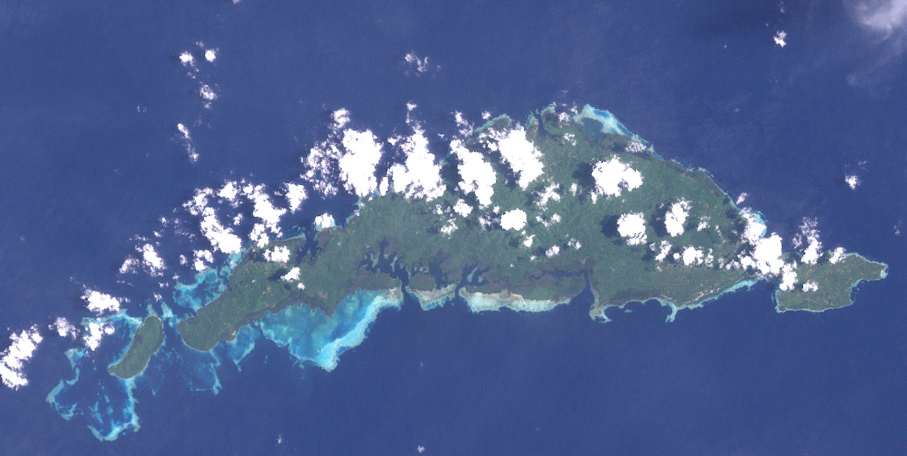 This satellite image (Landsat 7) shows Dyaul Island, Bismarcksea, Papua New Guinea Merged nine tiles and cropped them.